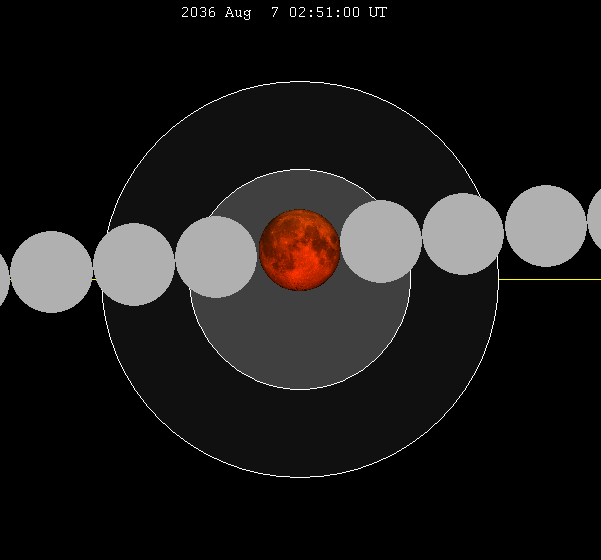 August 2036 lunar eclipse chart of moon's total lunar eclipse path through the earth's shadow. thumb